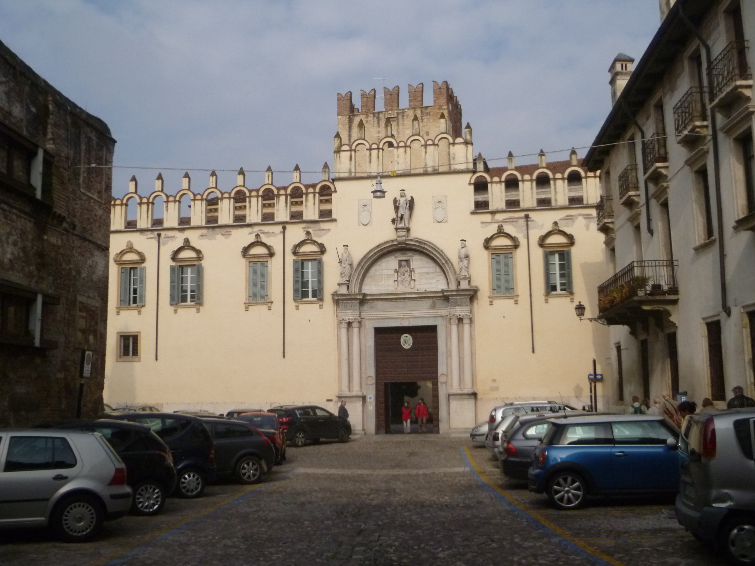 Cathedral of Verona, Italy